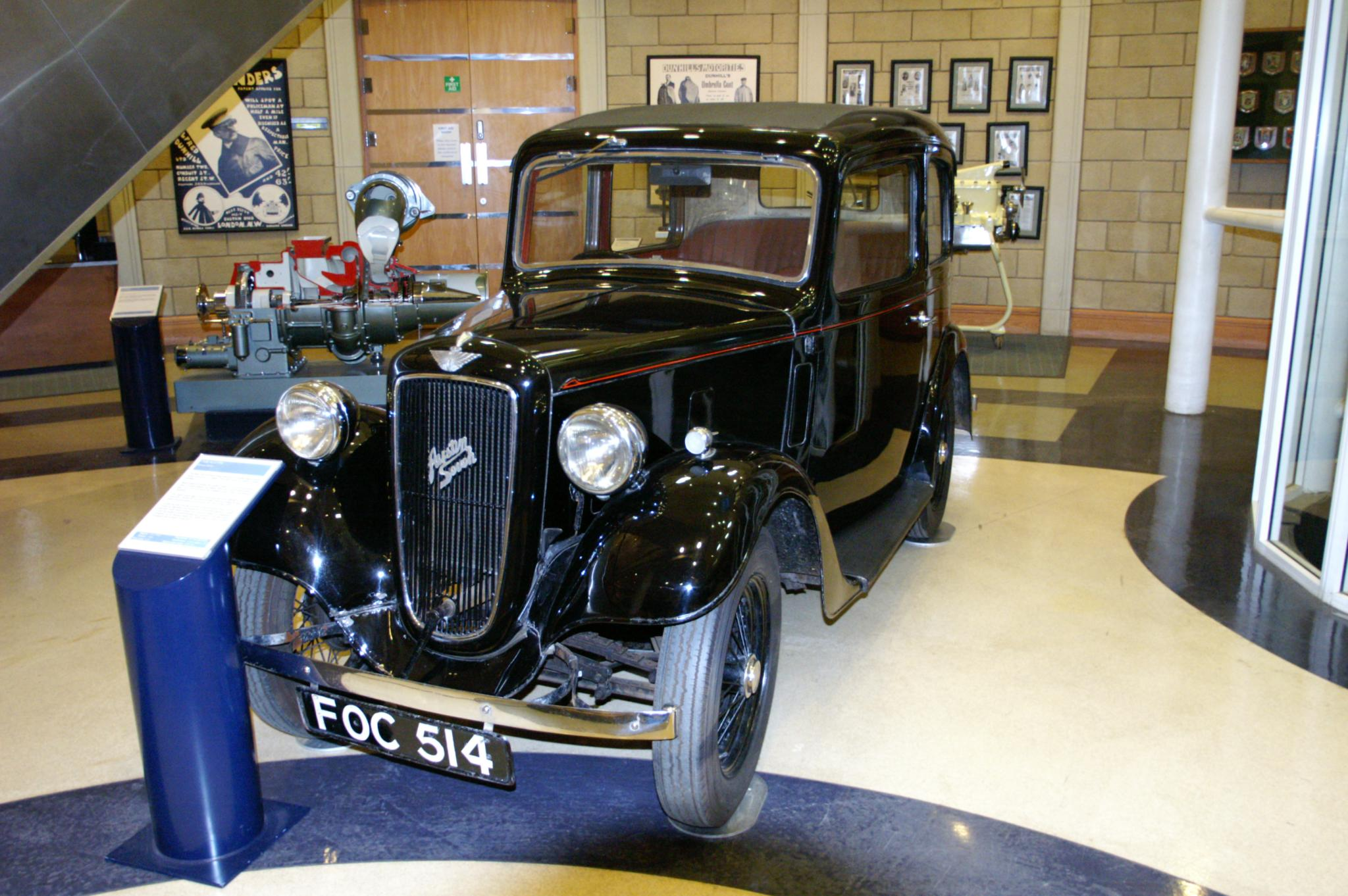 Heritage Motor Centre, Gaydon, Warwickshire